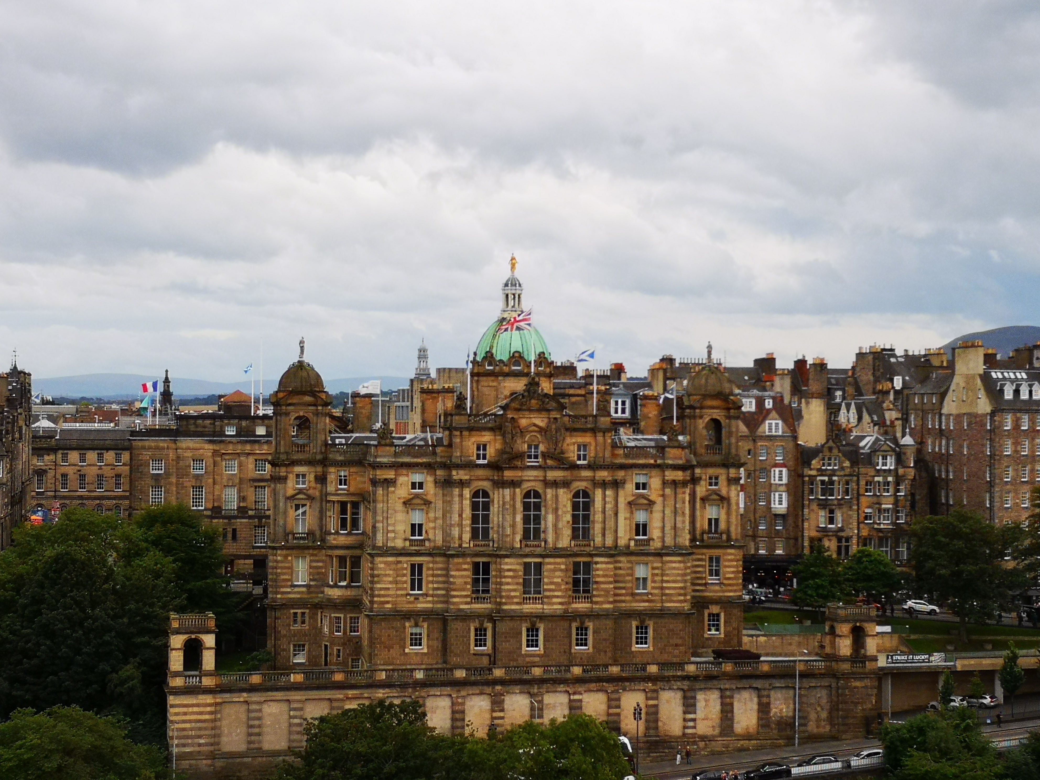 This building are the headquarters of the Bank of Scotland, part of the LLoyds Banking Group plc, in Edinburgh. Photo taken from the Scott Monument.